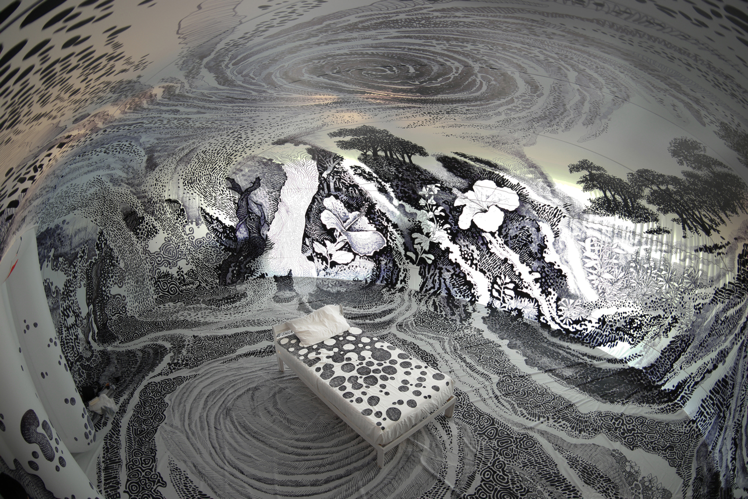 Installation at University of Southern California, Pacific Asia Museum. The Dreams of a Sleeping World. Image courtesy: © Oscar Oiwa Studio, NY.